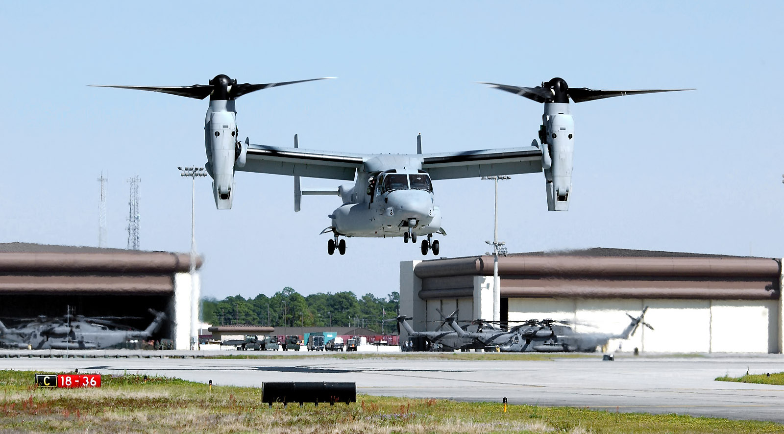 A U.S. Marine Corps MV-22 Osprey lands at Hurlburt Field, Florida (USA), on 2 April 2006 on its way to an air show at Eglin Air Force Base, Florida. The U.S. Air Force Special Operations Command was expected to get 50 CV-22s, an Air Force-modified version of the MV-22, starting November 2006. Designed to conduct long-range missions, the tilt-rotor aircraft offers increased speed and range over other rotary-wing aircraft. Two CV-22s were at Edwards AFB, California, undergoing operational testing in 2006.